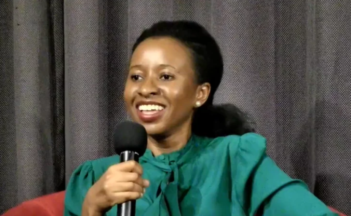 “Behold the Dreamers” with Imbolo Mbue at Revolution Books